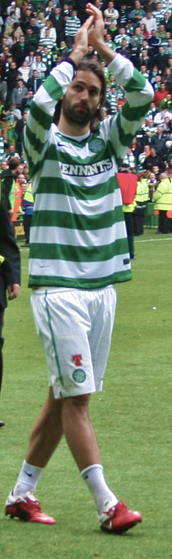 Georgios Samaras walking around Celtic Park after the last match of the 2010-11 season